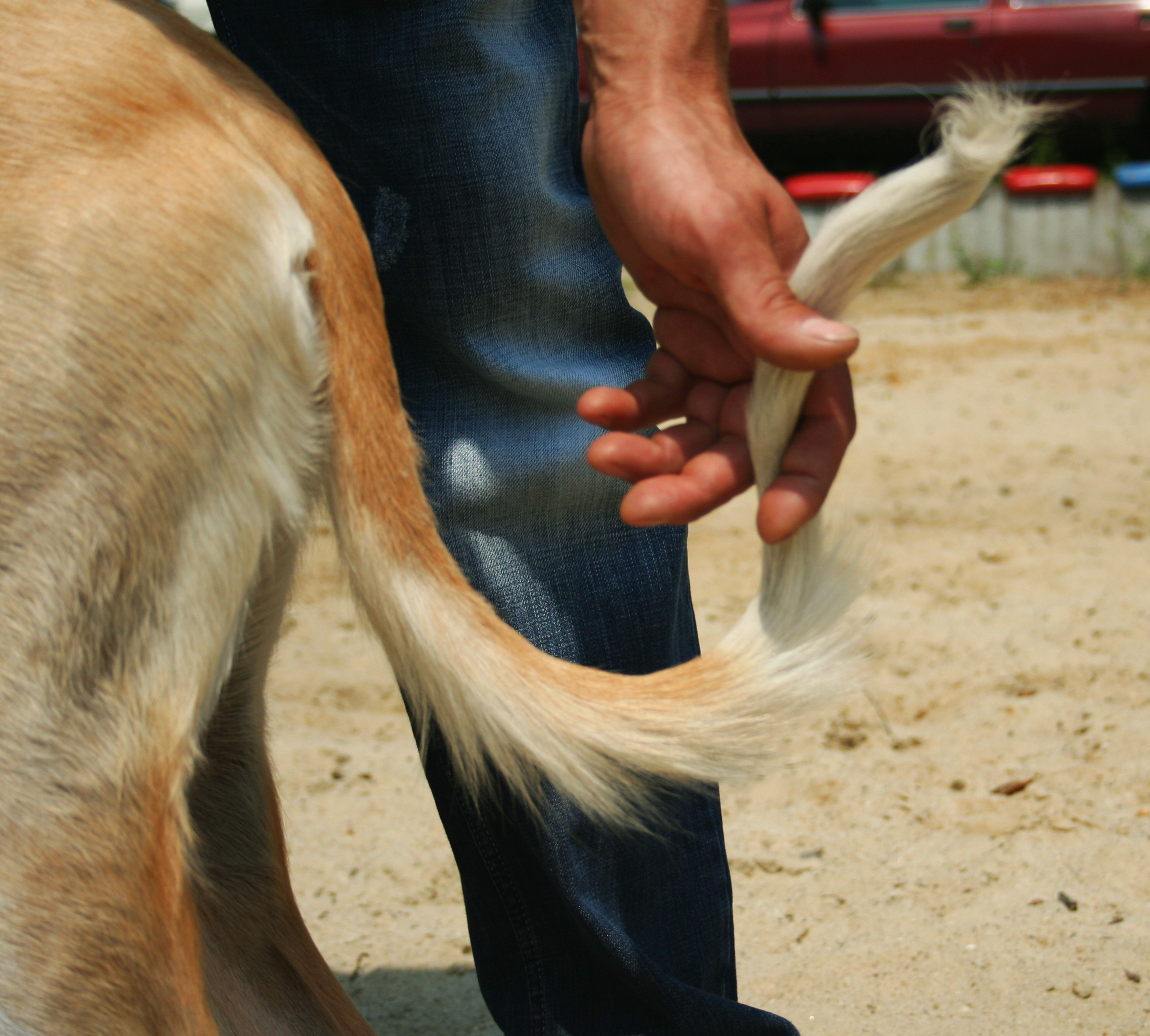 Polish Greyhound during dog's show in Racibórz, Poland